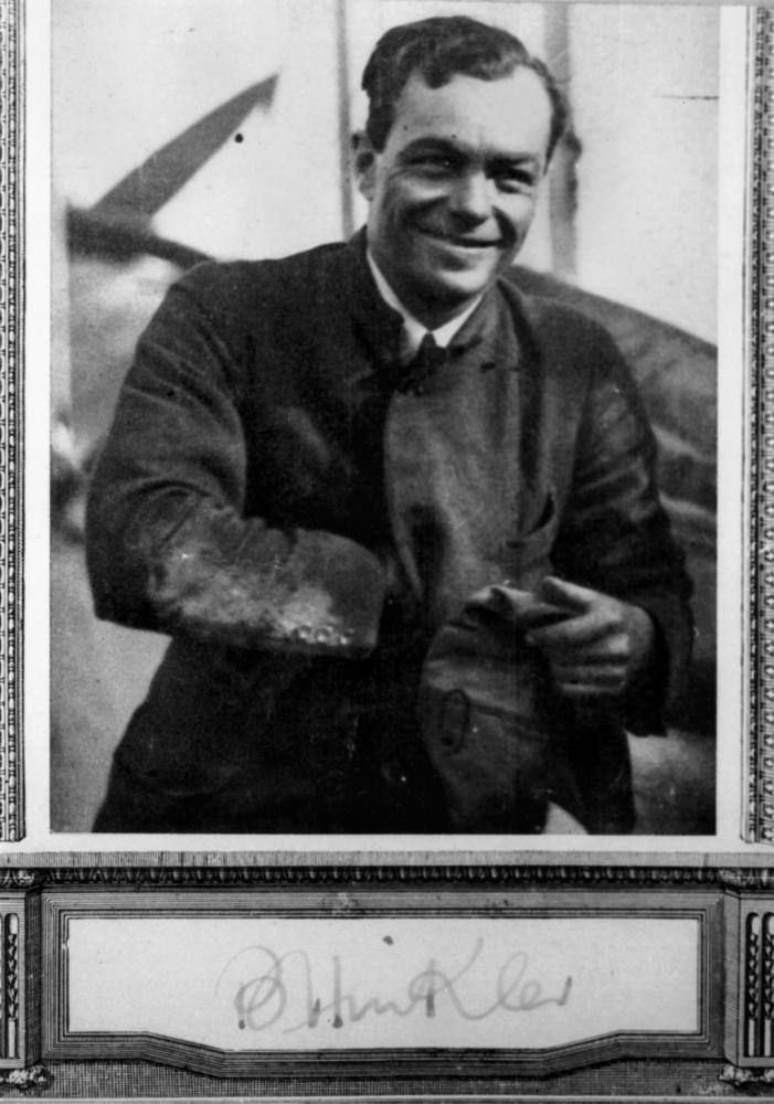 Bert Hinkler, aviator. Commemorative photograph given on Bert Hinkler's visit to Glennie Prep. School, Toowoomba. (Description from KES & RGD). The Garage contains approximately 500 images of vehicles used in Queensland Australia, covering the period from 1900 . The images are linked to an index of the State Library of Queensland's extensive collection of automotive repair manuals.